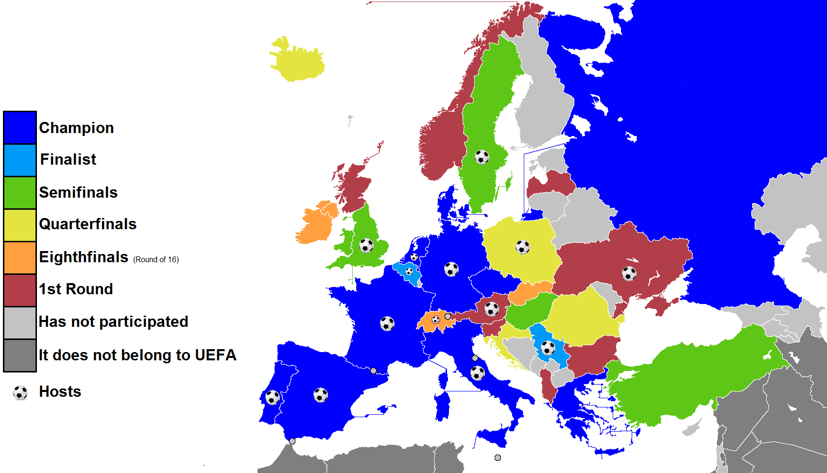 UEFA European Football Championship best results (colors) and hosts (dots). Made by uploader. Based on Image:BlankMap-Europe.png and Image:World cup countries best results and hosts.PNG.